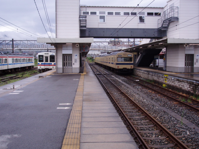 West Japan Railway Kure Line Hiro Station Platform 西日本旅客鉄道 呉線 広駅 駅ホーム